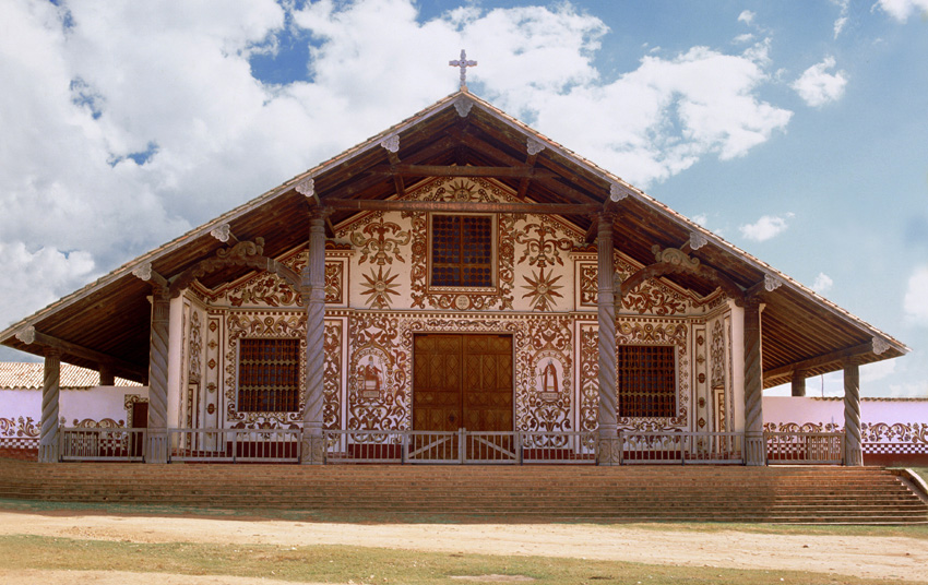 Church, San Miguel de Velasco, Bolivia